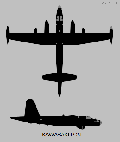 2-view of the Kawasaki P-2J